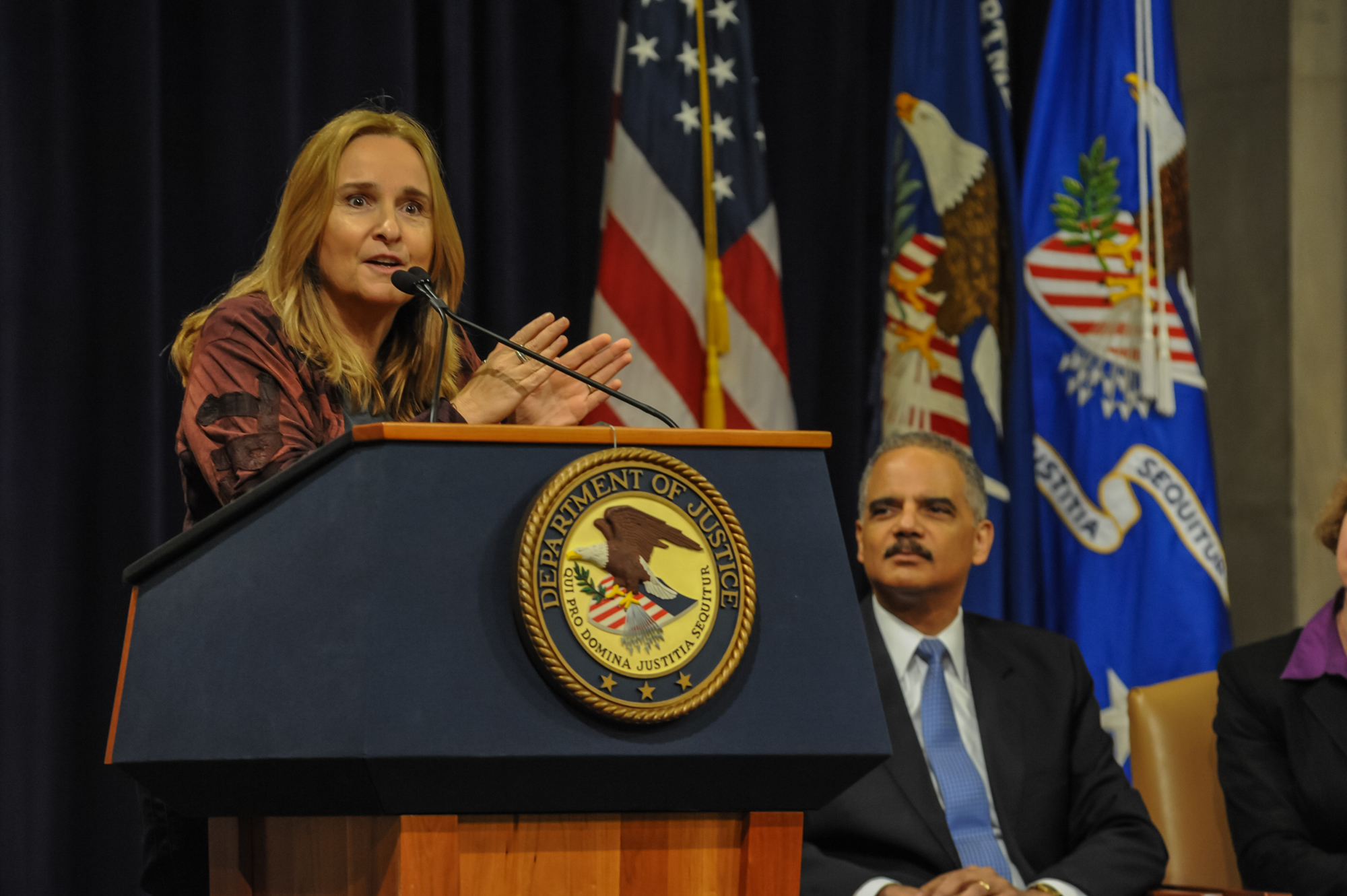 Melissa Etheridge shared her personal experiences of advocating for the LGBT community at a United States Department of Justice Event with Attorney General Eric Holder looking on.